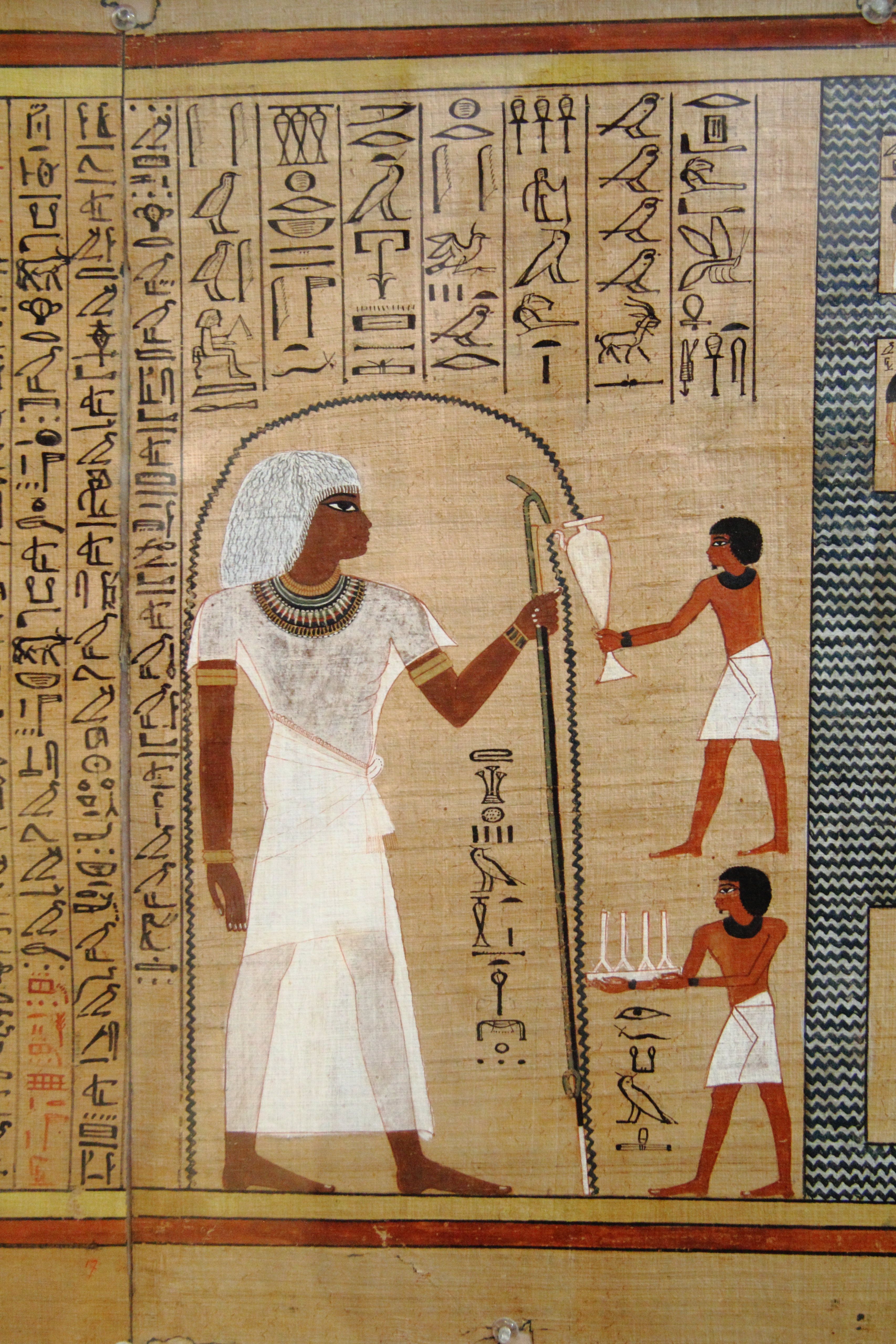 Egyptian Museum Cairo: Papyrus with the Book of the Dead of ancient Egyptian official Yuya, 14th century BC